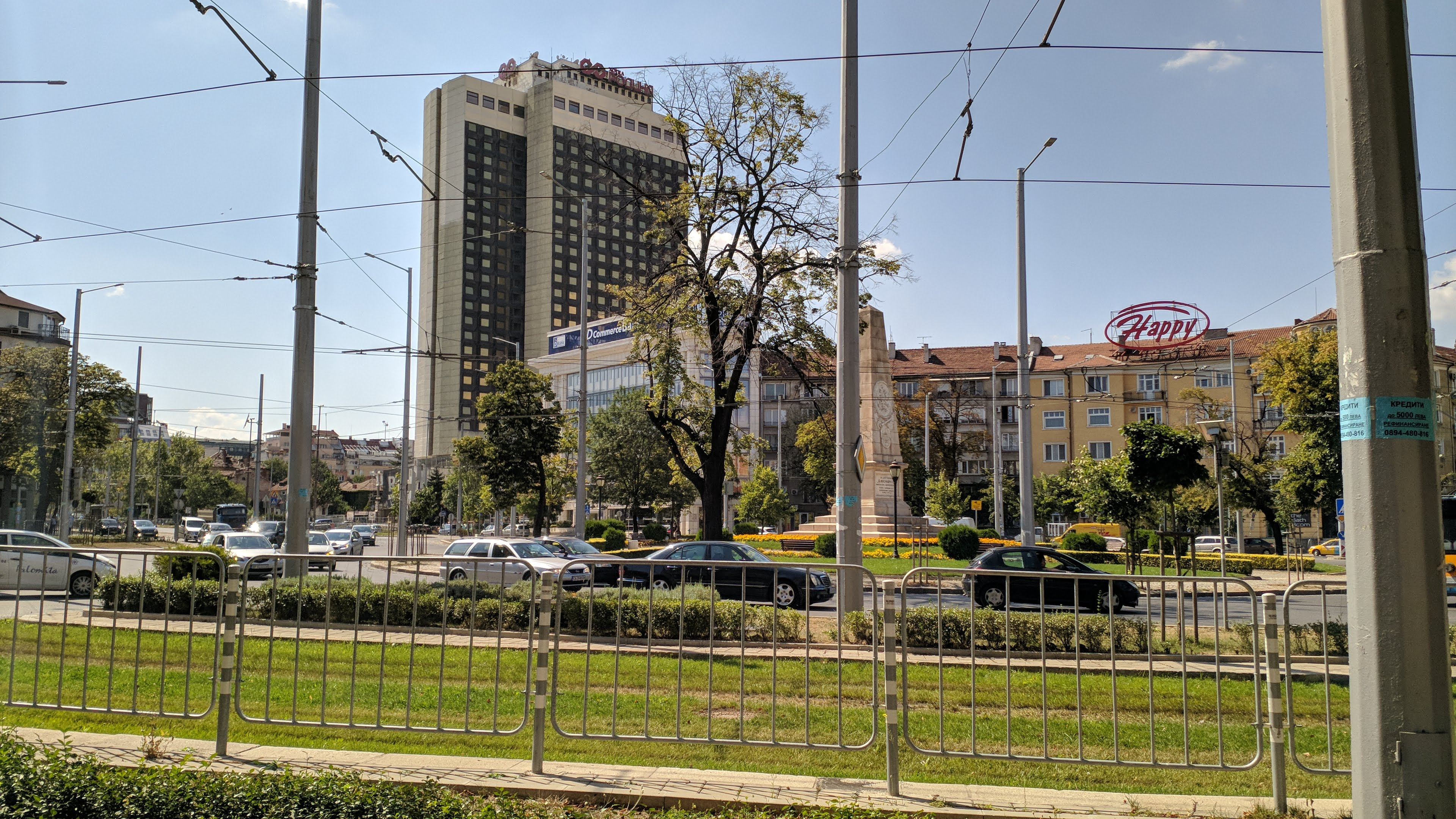 Russian monument (Sofia) in 2018